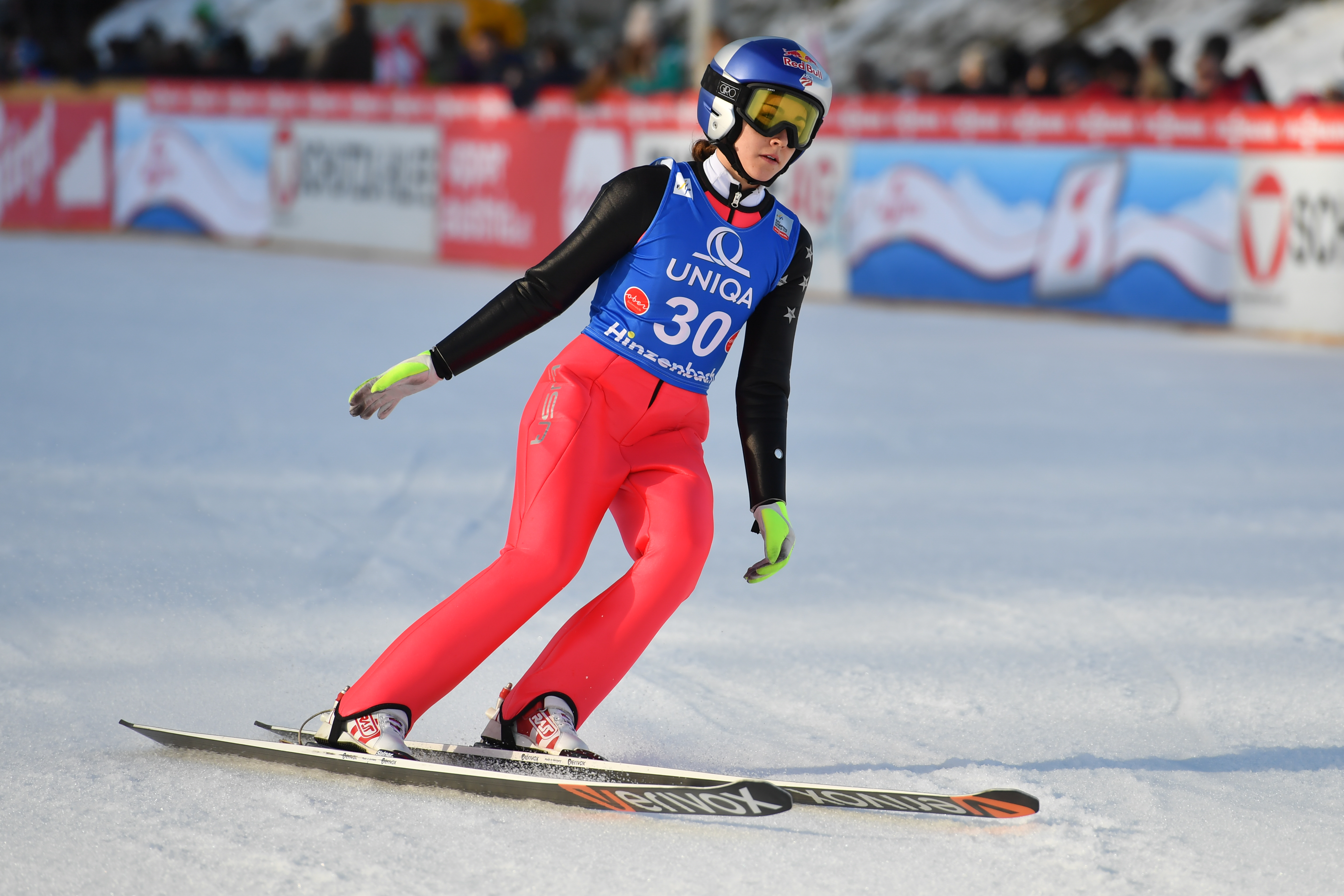 05/02/17, Hinzenbach, Austria, FIS Ski Jumping World Cup Ladies 2017